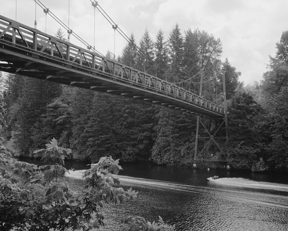 Yale Bridge, State Route 503 Spanning Lewis River, Yale vicinity (Cowlitz County, Washington) Also in Clark County This image or media file contains material based on a work of a National Park Service employee, created as part of that person's official duties. As a work of the U.S. federal government, such work is in the public domain in the United States. See the NPS website and NPS copyright policy for more information. Creator: U.S. Department of the Interior, National Park Service, Historic American Engineering Record. Survey number HAER WA0438DLC/PP-1-3 Source: U.S. Library of Congress, Prints and Photographs Division, "Built in America" Collection. Copyright: "The original measured drawings and most of the photographs and data pages in HABS/HAER/HALS were created for the U.S. Government and are considered to be in the public domain." Object location45° 57′ 40″ N, 122° 22′ 18″ W